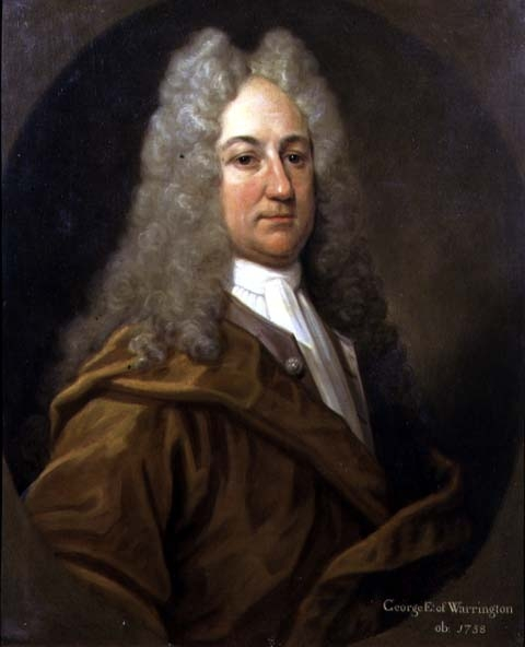 George Booth, 2nd Earl of Warrington (1675-1758)